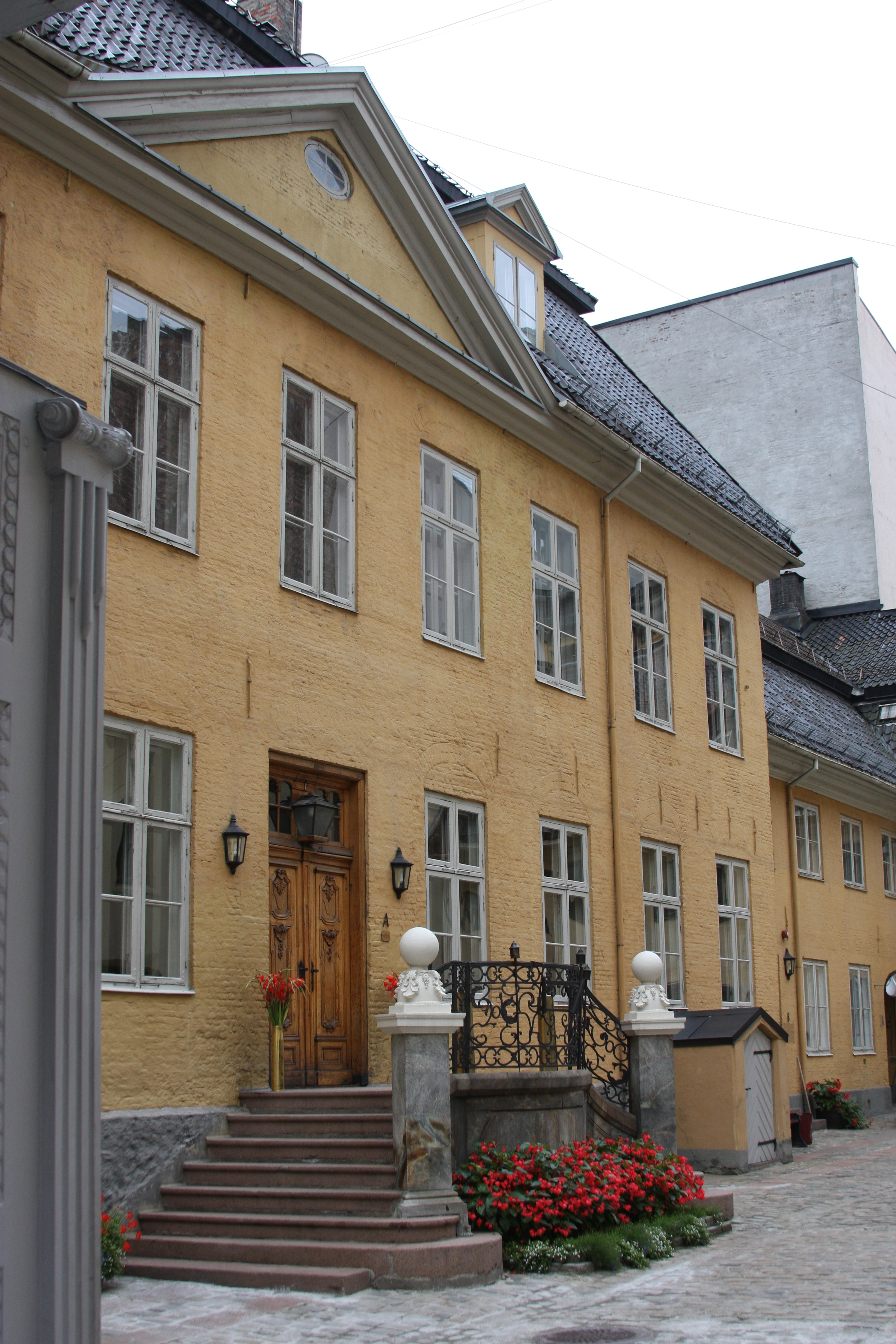 Den gamle Krigsskole, the old War Academy of Norway from 1802. Oslo.